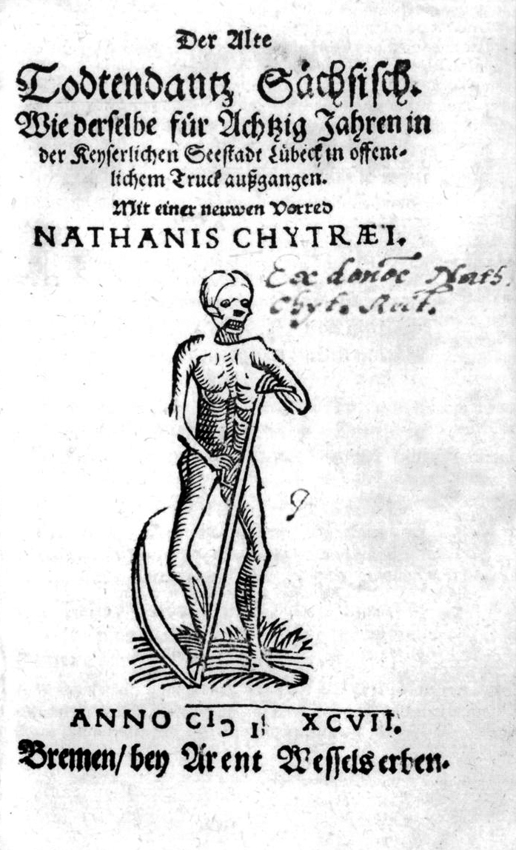 Title page of the middle low saxon book Der Alte Todtendantz Sächsisch. Wie derselbe für Achtzig Jahren in der Keyserlichen Seestadt Lübeck in öffentlichem Truck außgangen, published by Nathan Chytraeus in Bremen, Germany, in the year 1597.